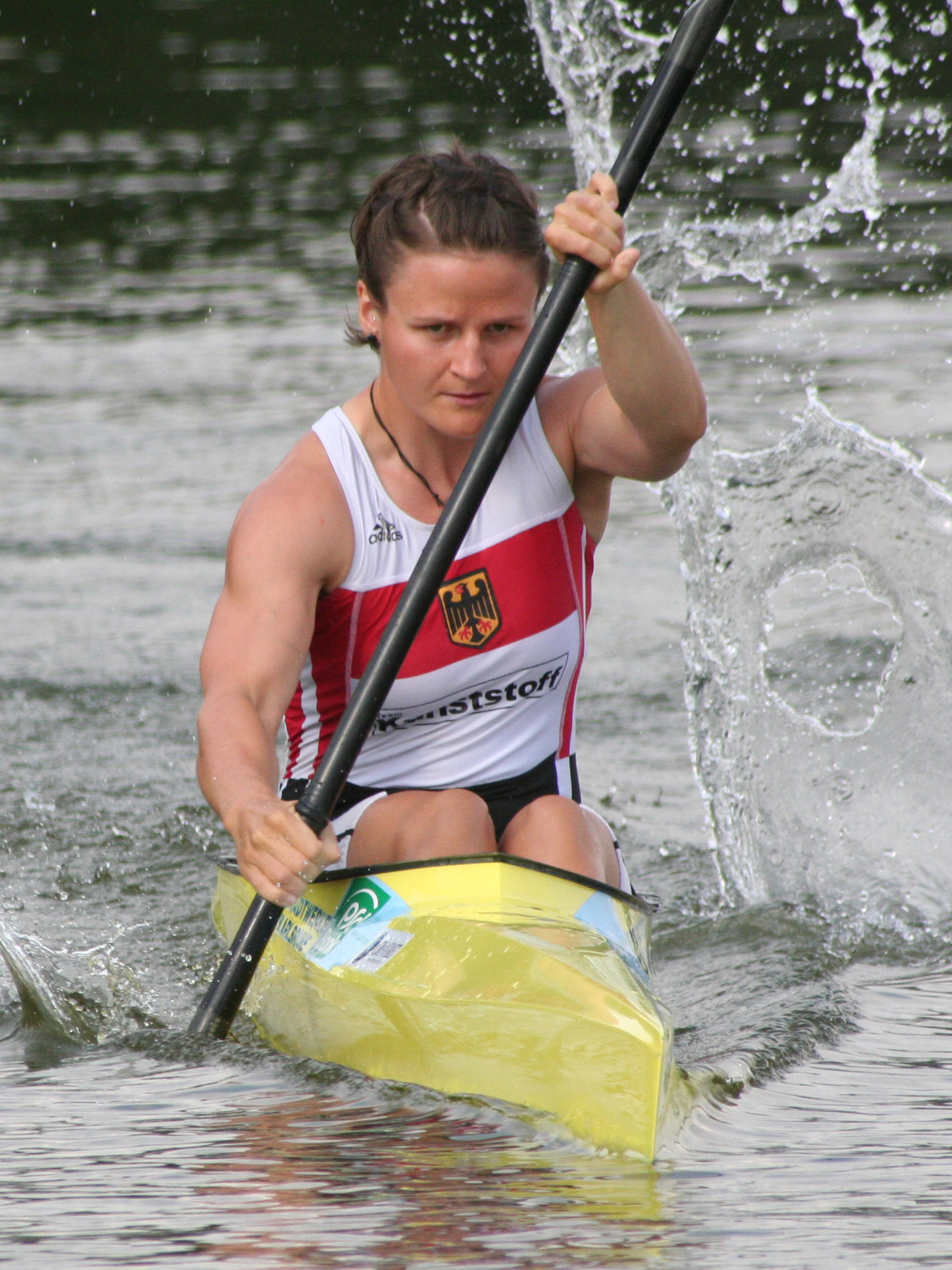 Silke Hörmann Silver Medalist World Championships Canoe Sprint [pic: 2010-07-13]